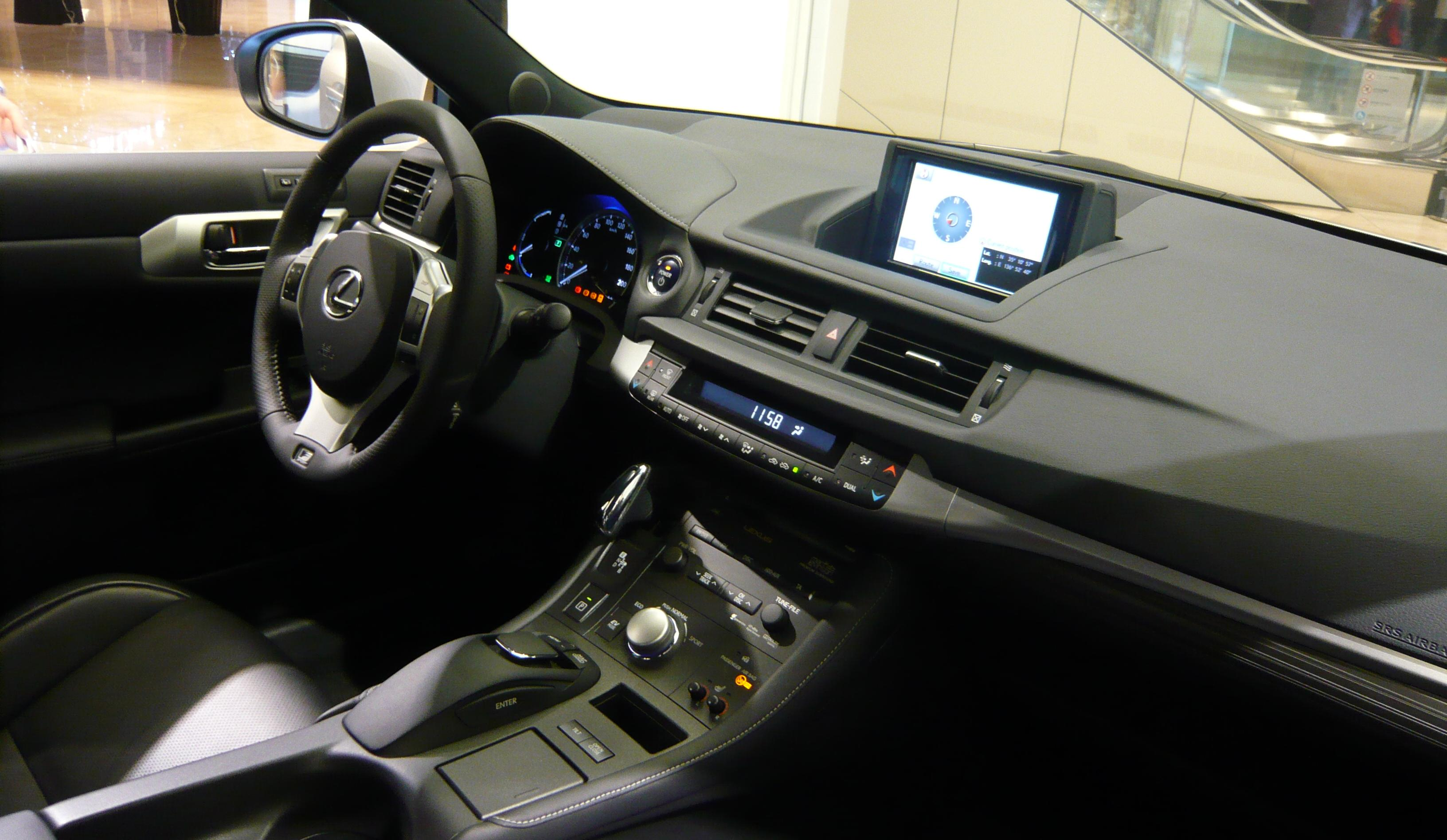 A picture of Lexus CT200h.